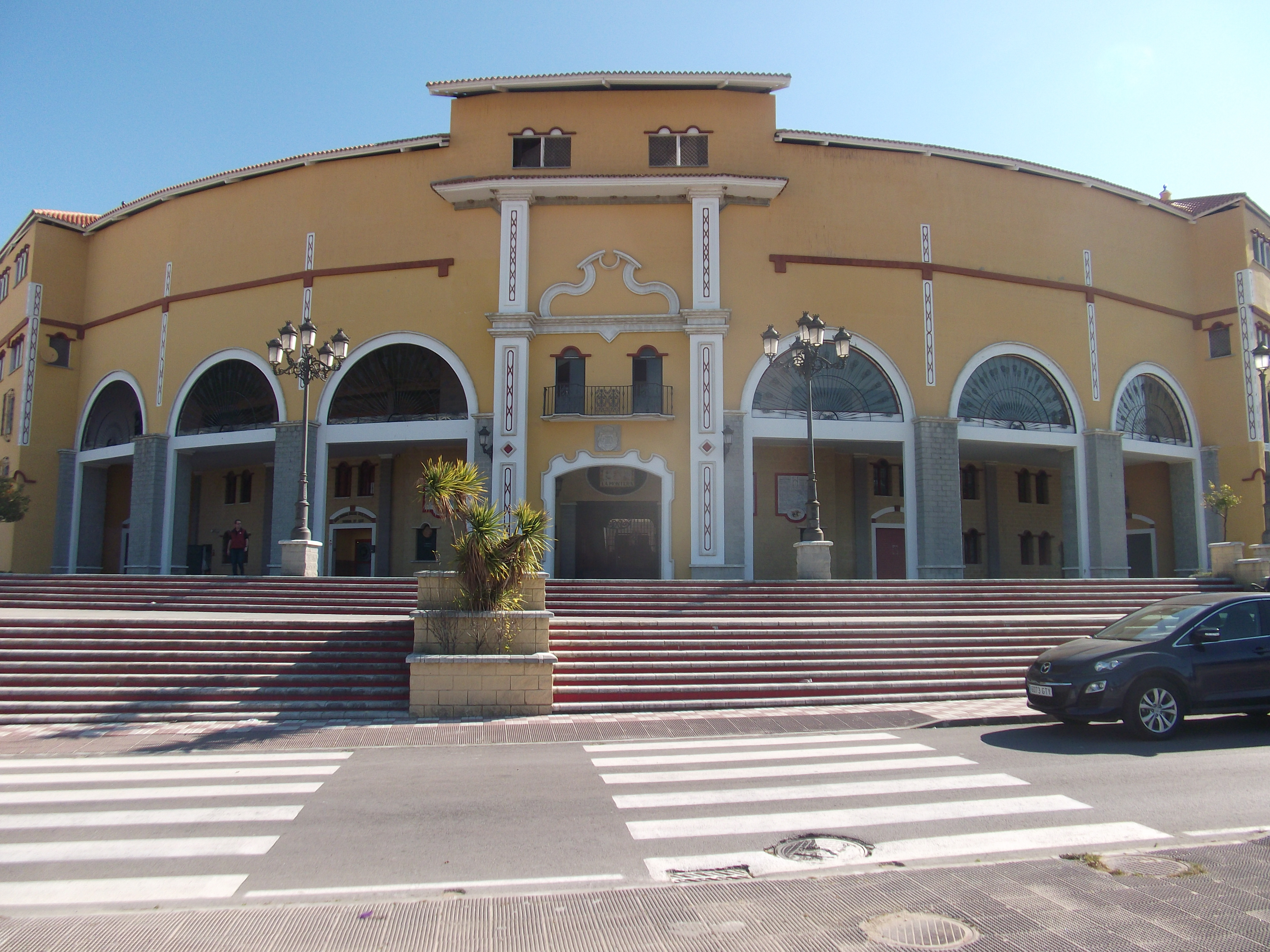 Fachada